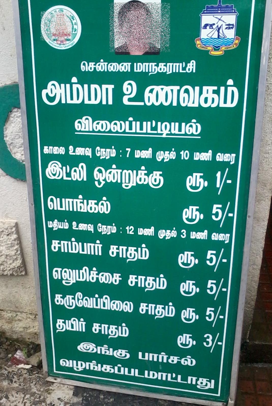 Price list displayed in front of the subsidised govt eatery Amma Unavagam at Thiruvengadam Street, Adyar, Chennai. Jitter has been applied to portions which might be under copyright.